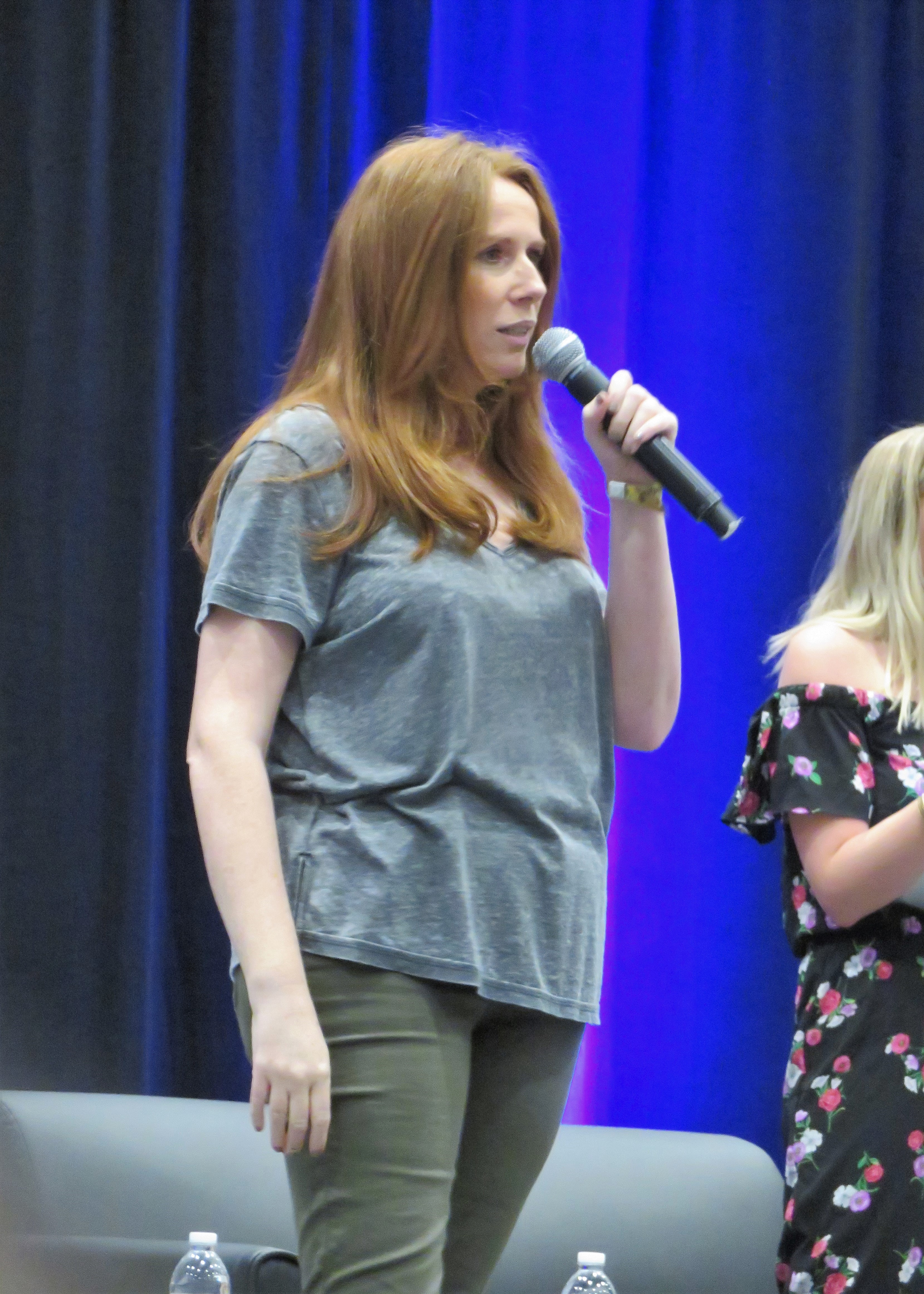 Catherine Tate 01